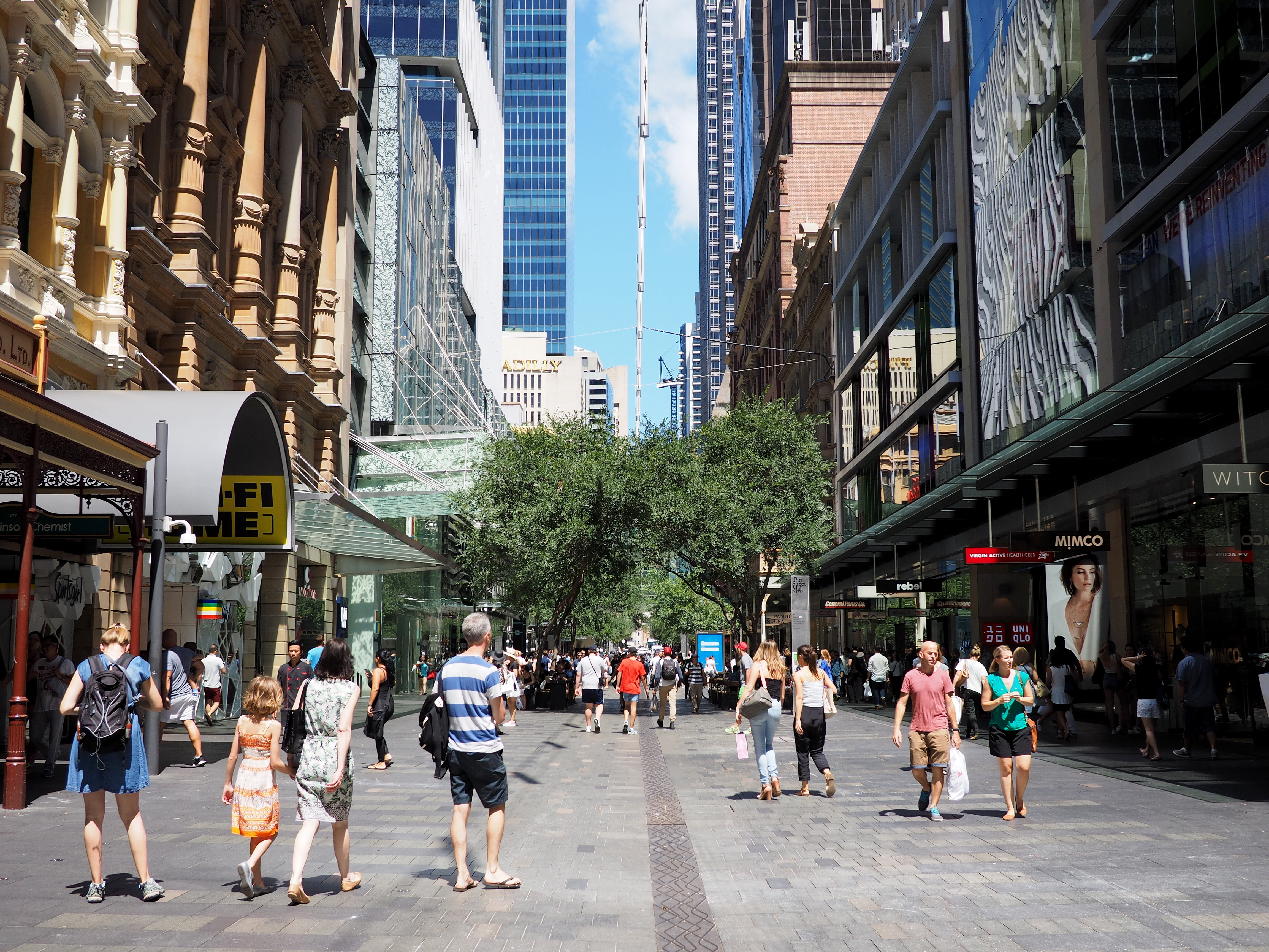 View south along Pitt Street Mall, photographed from about the mall's mid-point